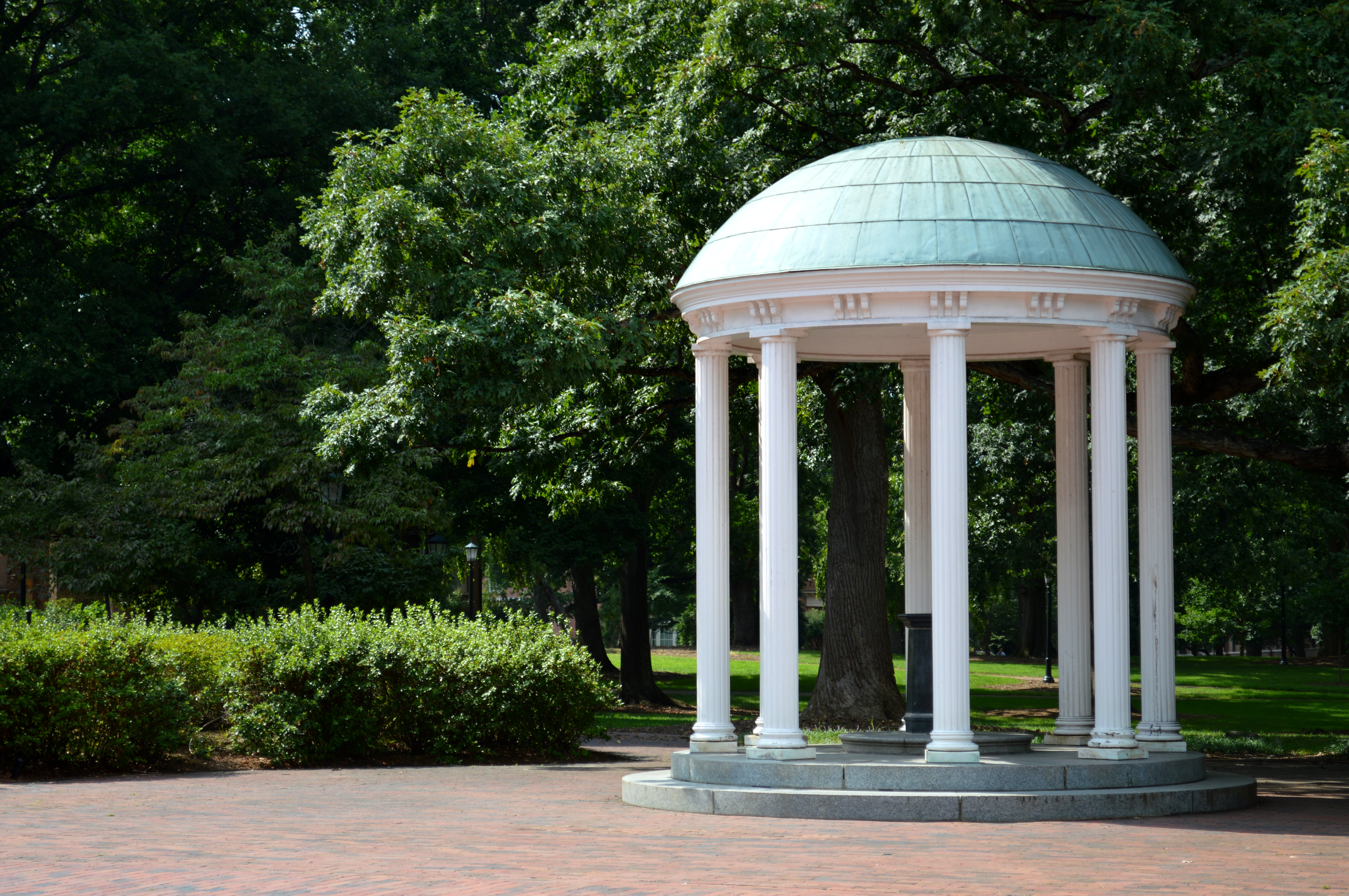 The Old Well at the University of North Carolina at Chapel Hill